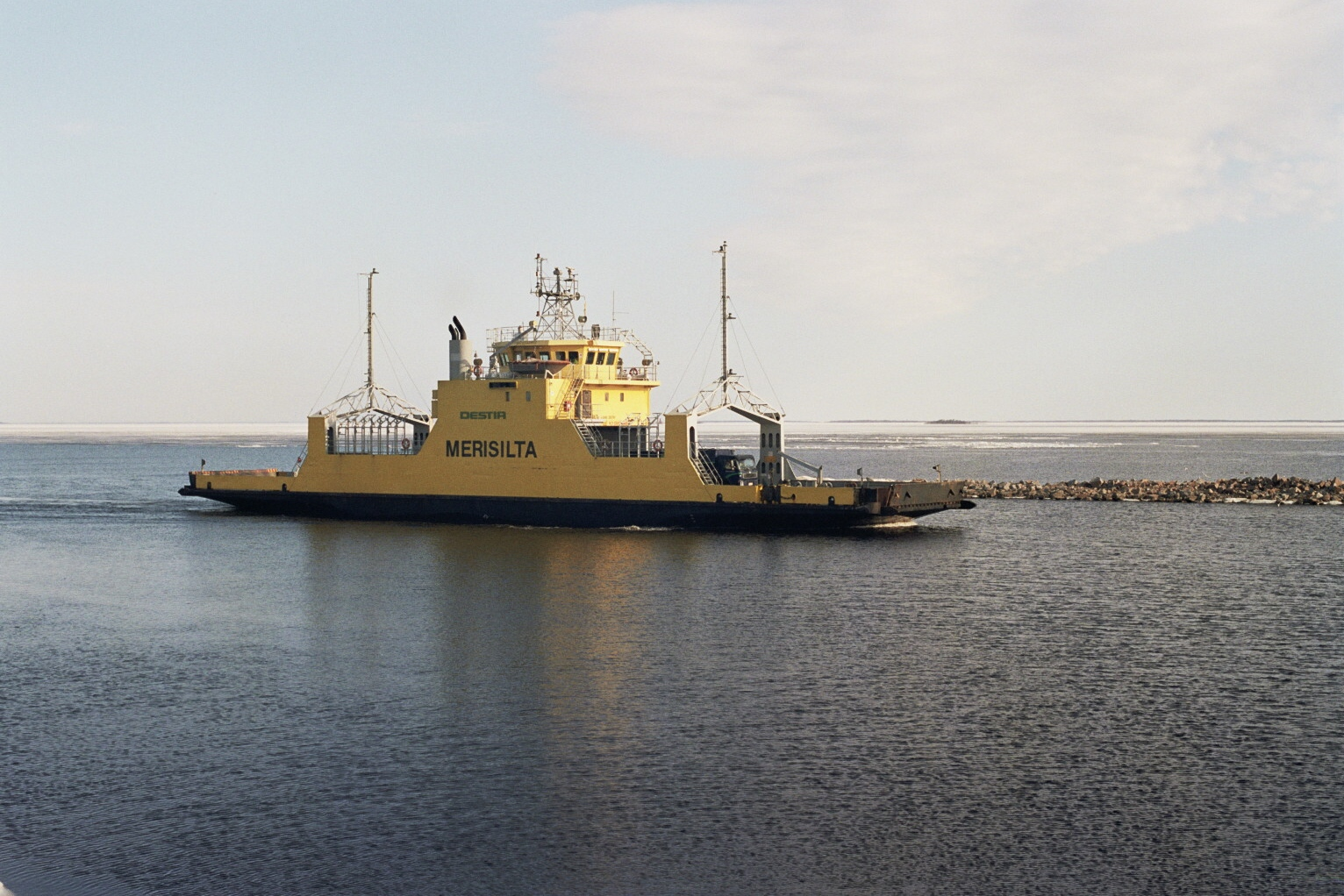 Merisilta, a ferry arriving at the Riutunkari harbour in the municipality of Oulunsalo in Finland. The ferry operates between Riutunkari and the island of Hailuoto.